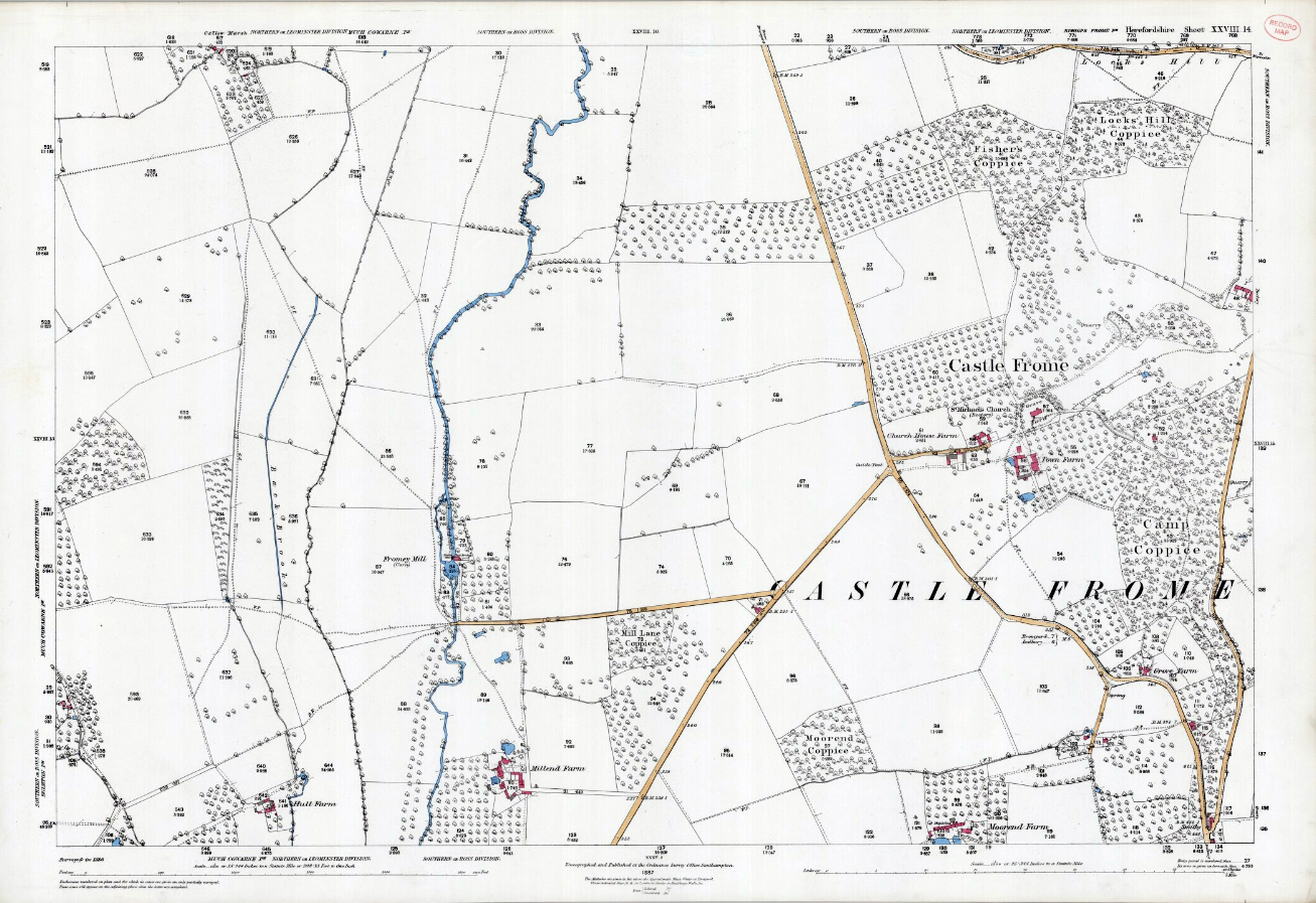 1887 Ordnance Survey map of Castle Frome, Herefordshire, England. OS 25 inch Herefordshire XXVIII.14. Reproduced with the permission of the National Library of Scotland.[1].